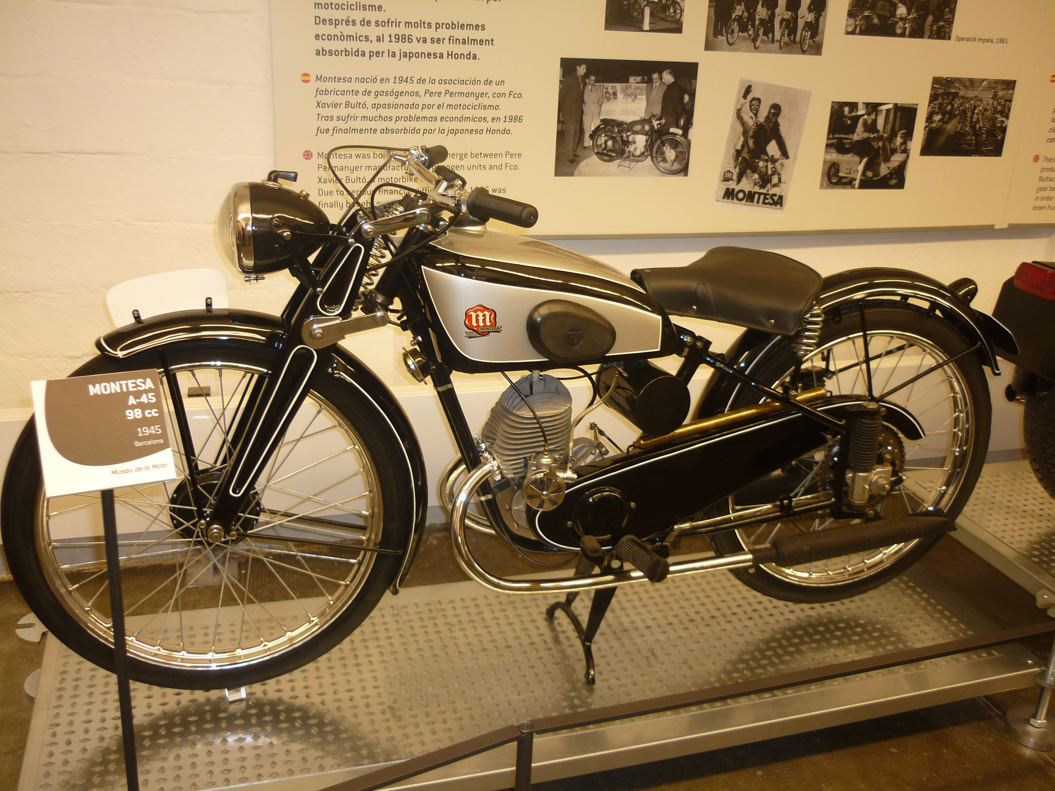 Montesa A-45 98cc, also known as Kettle due to shape of the cylinder. It was the first model made by Montesa (1945).Museu de la Moto de Barcelona (Catalonia).